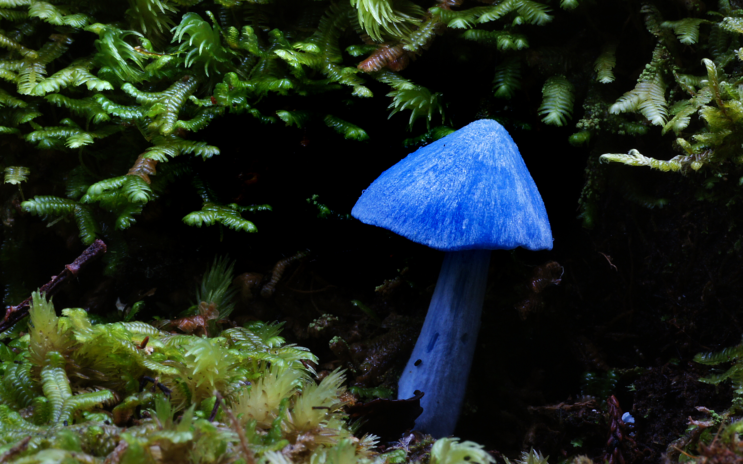 A distinctive mushroom unique to New Zealand could be used to colour everything from Smarties to eye shadow in products sold around the world. The blue mushroom is one of the most distinctive in the world, featured on the $50 note and is part of Maori folklore. But very little is know about Entoloma Hochstetteri. It is not known how the vivid blue colour is made, if the mushroom has mind-altering properties or even if it is edible.